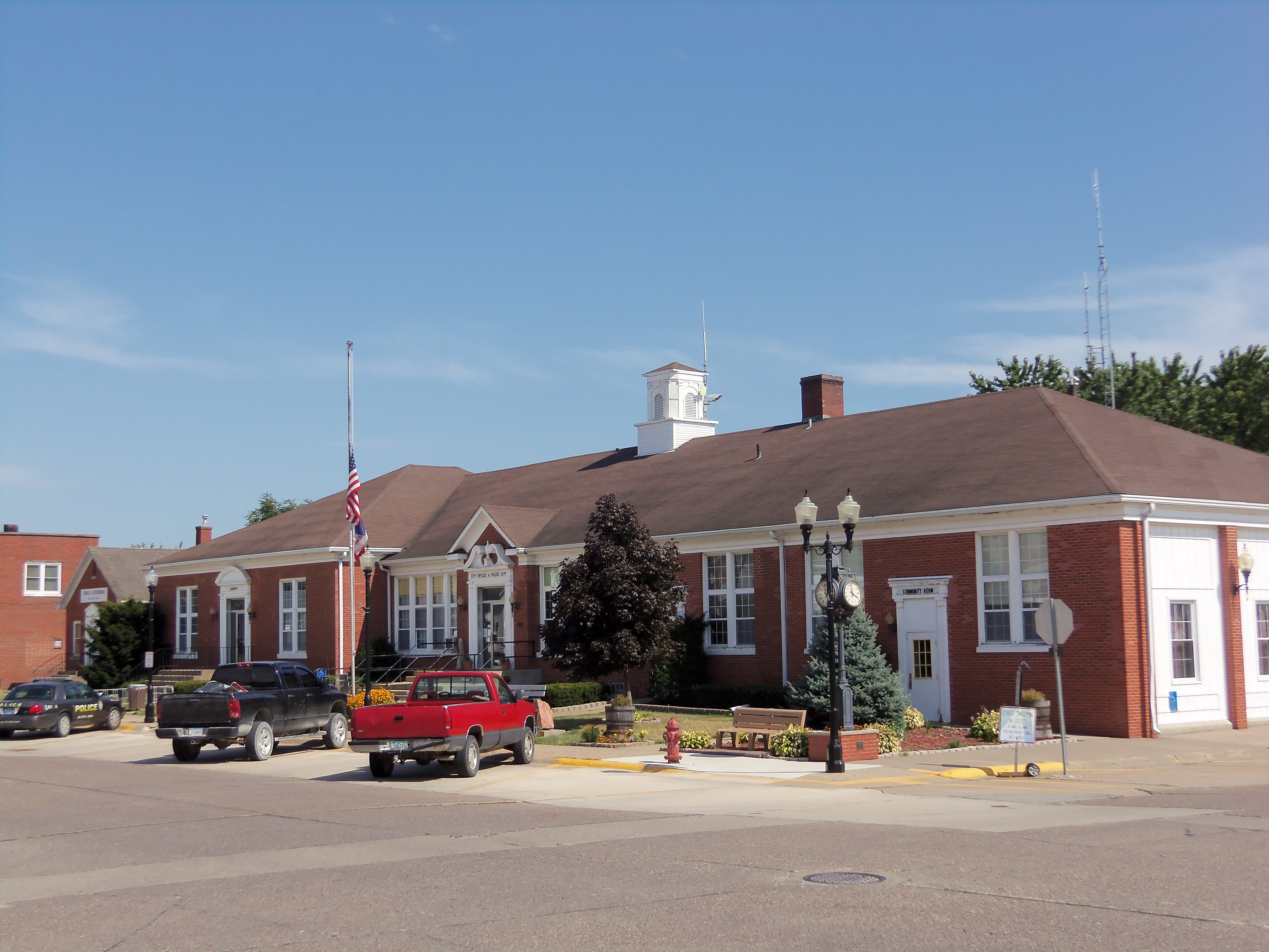 City Hall in Wilton, Iowa also houses the police department, library and a community room.